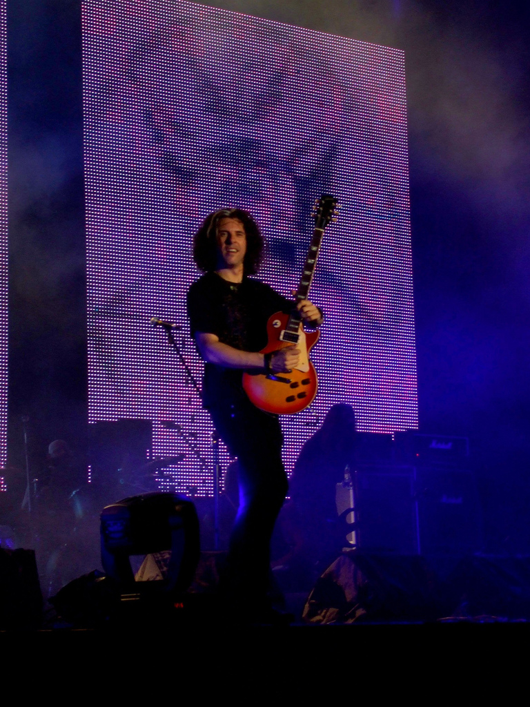 They really rocks!